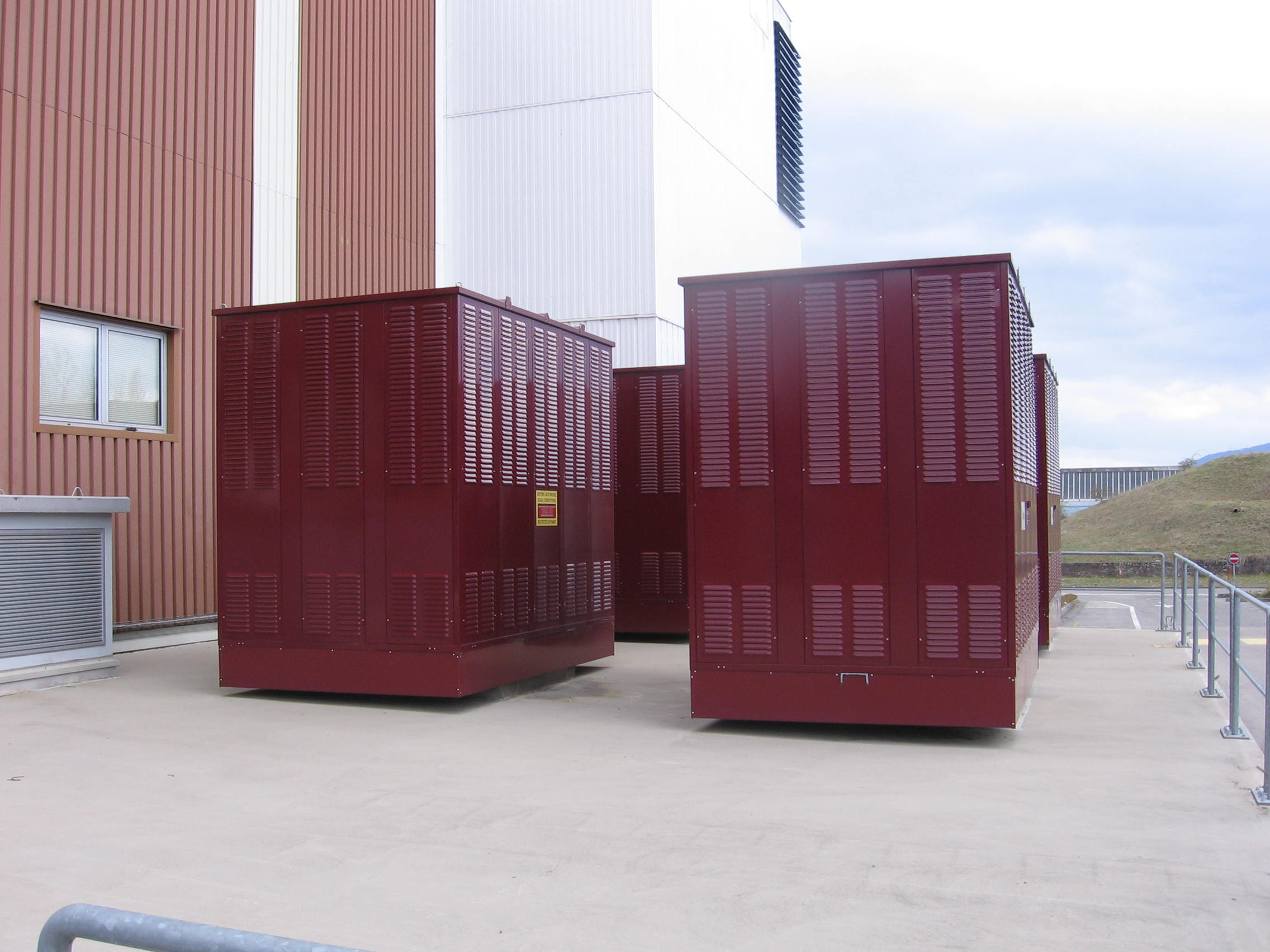 Transformers of the CERN Computer Centre for collecting, handling and calculating the data produved by the LHC experiments.